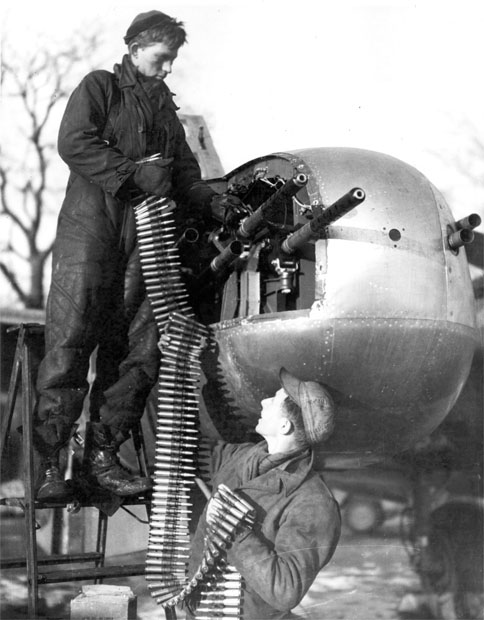 A-26 machineguns get a full ammo load